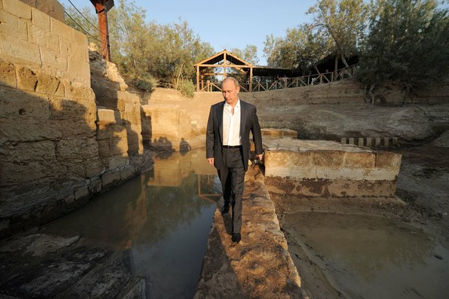 Visit to the historical and religious sanctuary, the Baptism Site of Jesus Christ on the Jordan River.